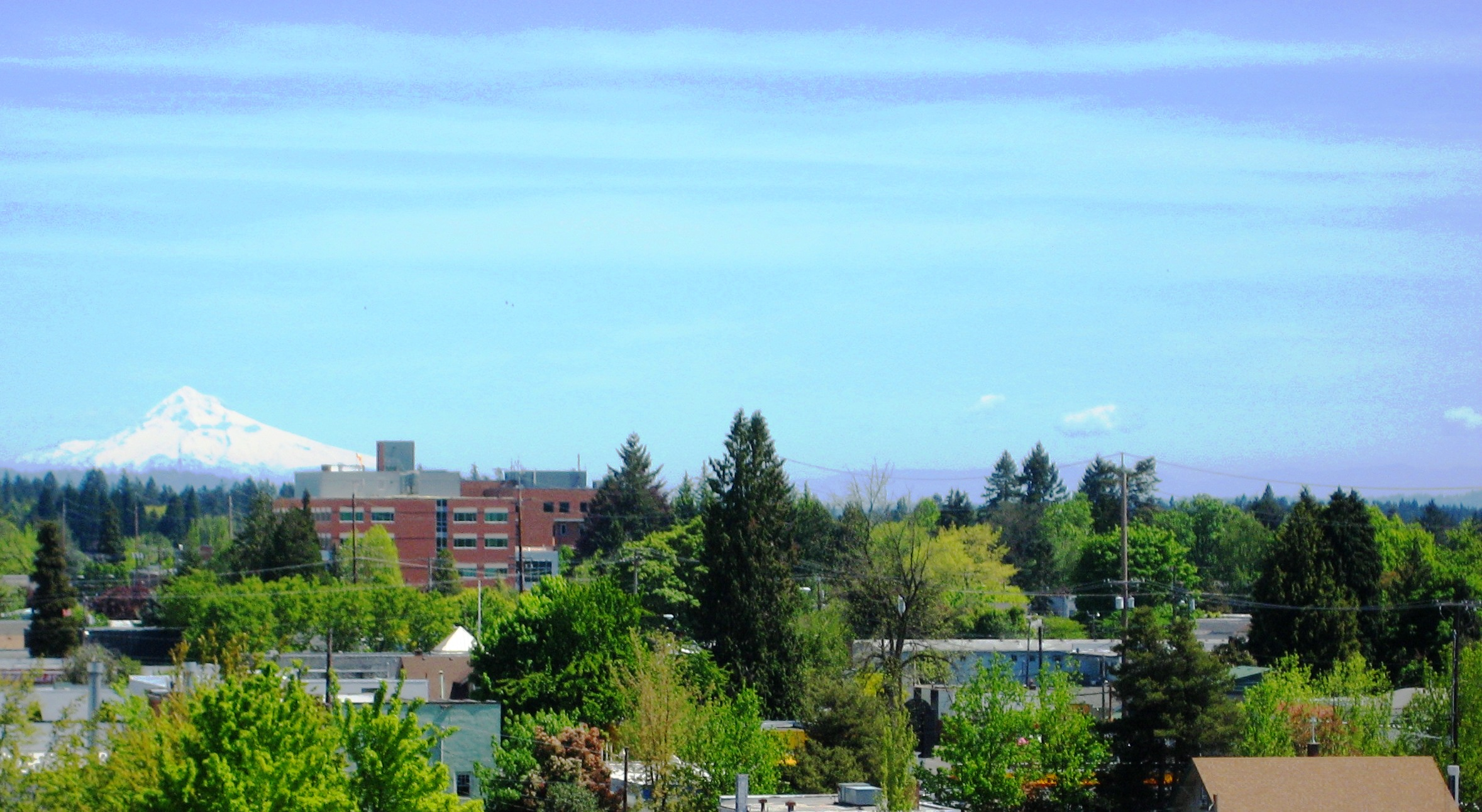 Hillsboro, Oregon, United States, and Mount Hood.